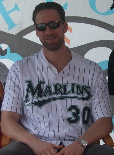 I took this picture. Mark Hendrickson at Florida Marlins Fan Fest 2008. 23:17, 9 February 2008 . . Rabbethan . . 369×500 (62 KB)